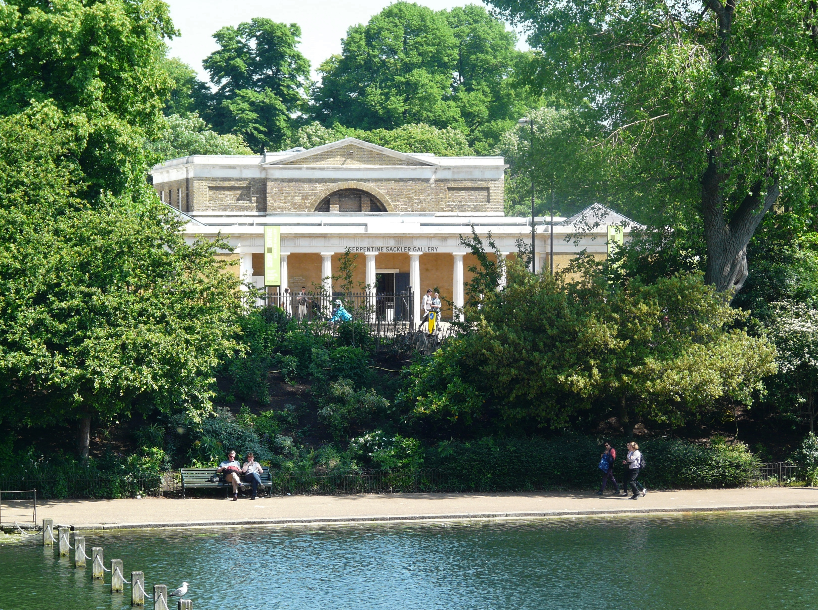 The Magazine Wikidata has entry Q17550503 with data related to this building.